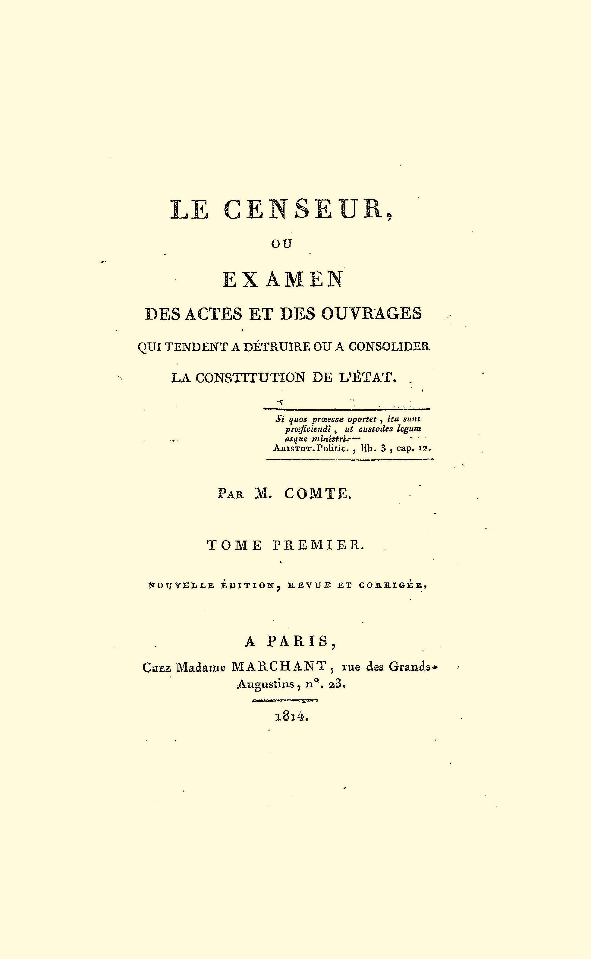 Frontispiece of Charles Dunoyer’s Le Censeur, ou Examen des actes et des ouvrages qui tendent à détruire ou à consolider la constitution de l'État, Dentu ; Mme Marchant (Paris) : 1814, VIII-450 p. ; in-8°.